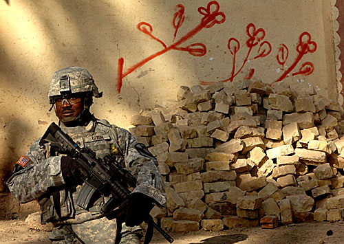 Staff Sgt. Donnie Dixon, a soldier assigned to the 3rd Brigade Combat Team, 1st Cavalry Division commander's personal security detachment, pulls security while conducting a patrol in support of Operation Lightning Hammer in Mukeisha, Iraq, Aug. 14, 2007. U.S. Army photo by Sgt. Serena Hayden